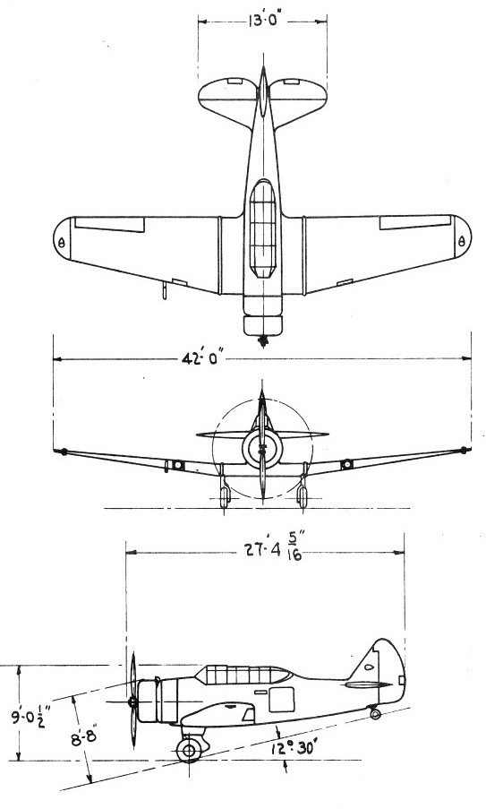 North American BT-9 3 view drawing from original manual